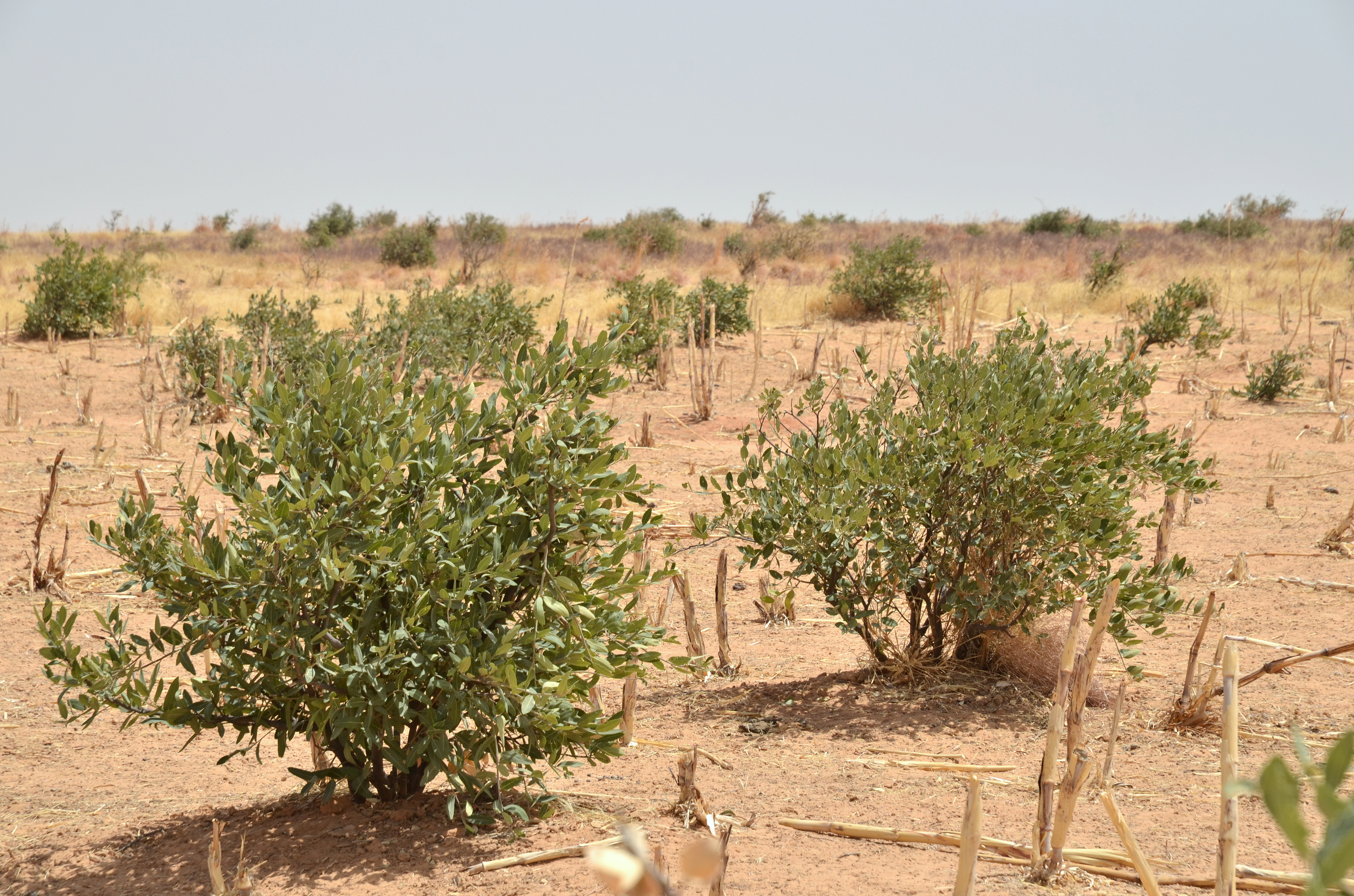 Residues of millet on a field in the dry season with Boscia senegalensis bushes in the region of Damagaram Takaya, Republic of Niger, March 2013.